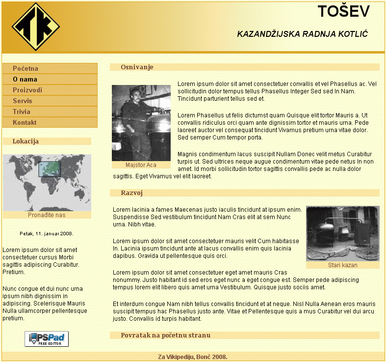 An example of Lorem ipsum generator on hypothetical Web page (in Serbian). Created using free software PSPad & IrfanView